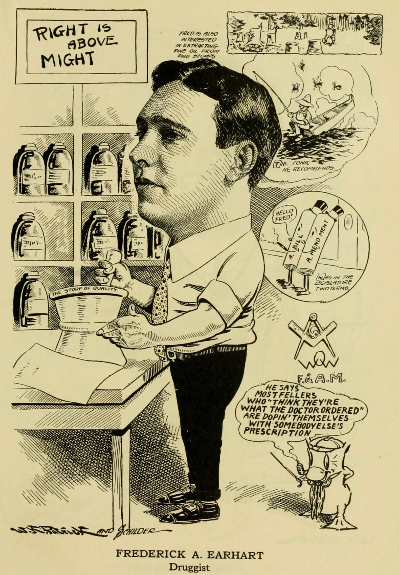 Caricature by W. K. Patrick of New Orleans druggist Frederick A. Earhart (later to become Mayor of New Orleans). Printed in book 1917; may have appeared in the Times-Picayune some years earlier.